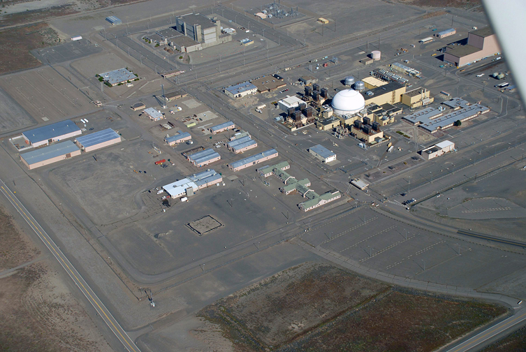 Fast Flux Test Facility (aerial view)